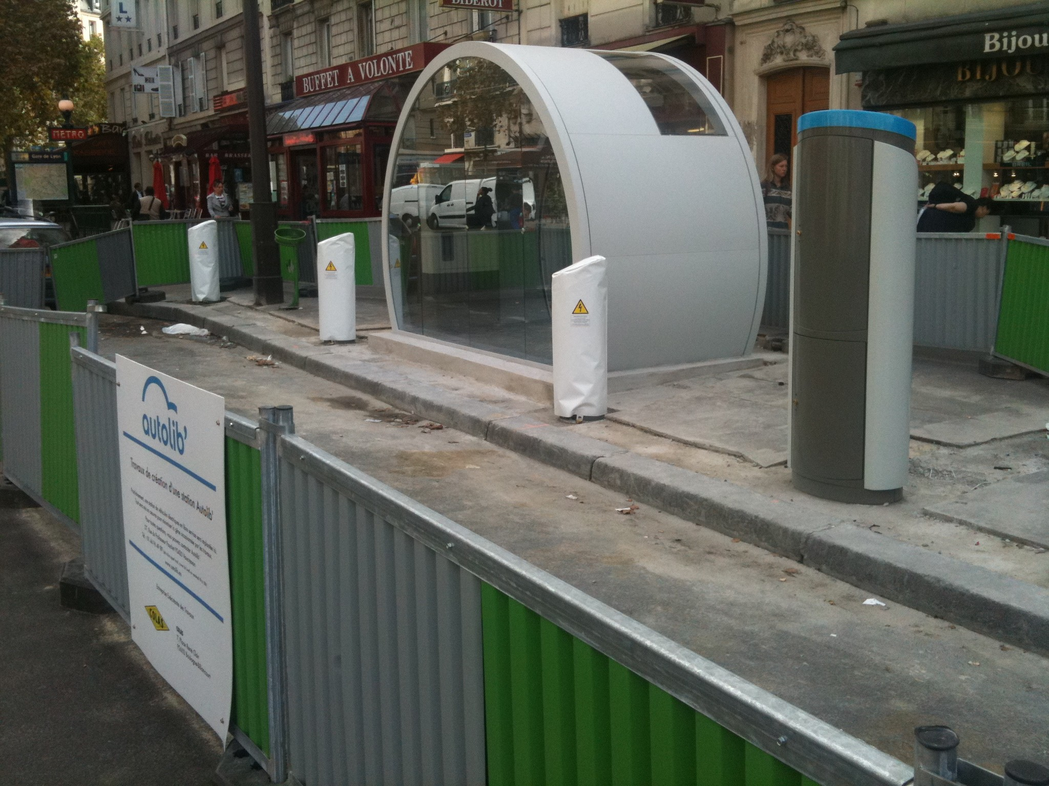 Autolib' station being installed in Paris, 24 boulevard Diderot.